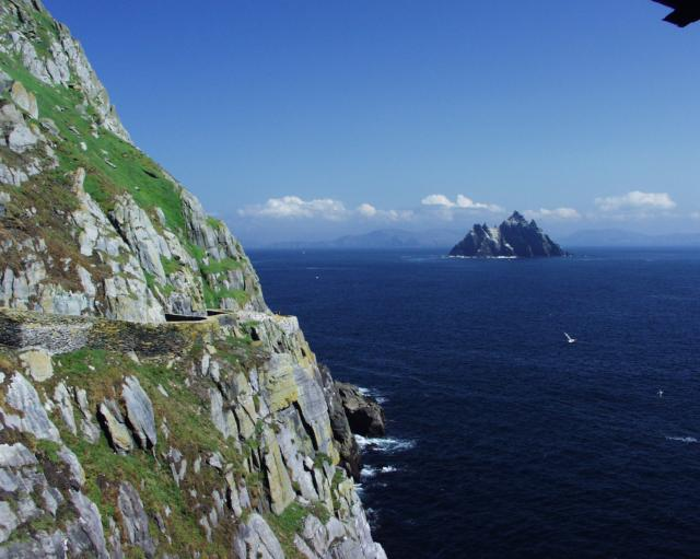 The view looking east from Skellig Michael to Little Far with the mainland of Ireland in the distance.